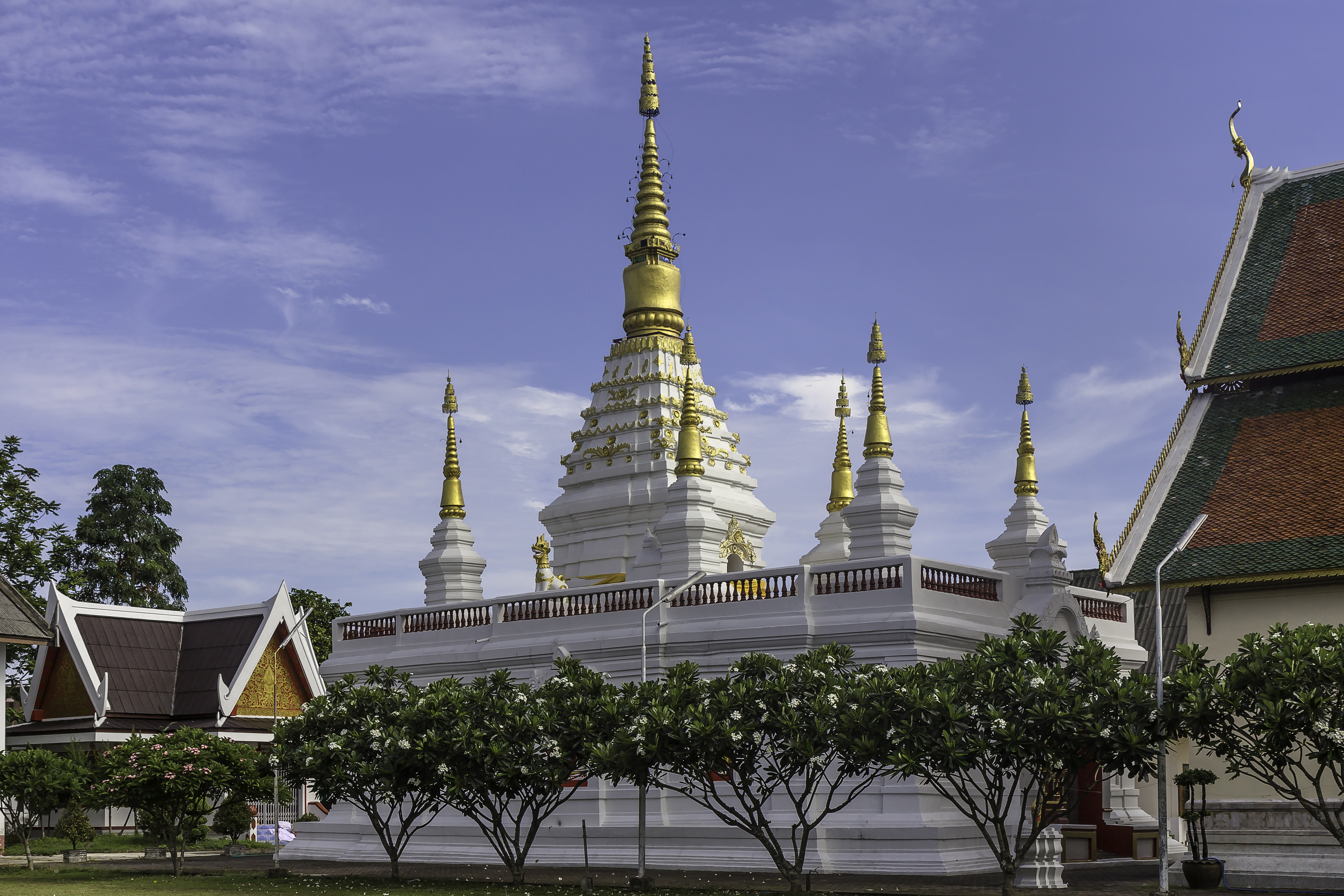 Wat Chet Yot, Chet Yot Road, Chiang Rai, Thailand